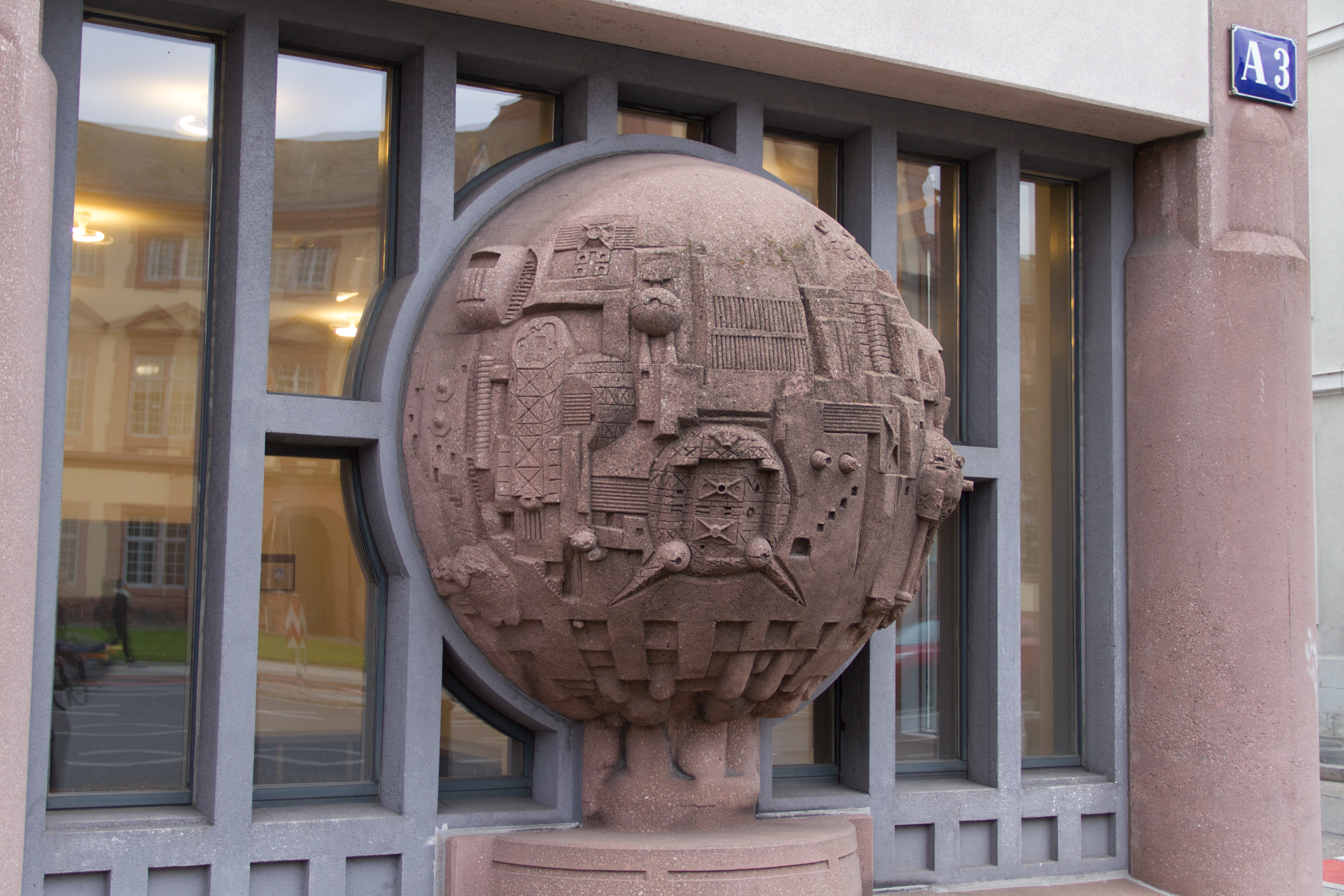 WikiDACH 2017, Mannheim